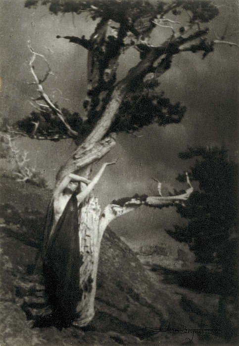 The dying cedar, published in Camera Work 1909